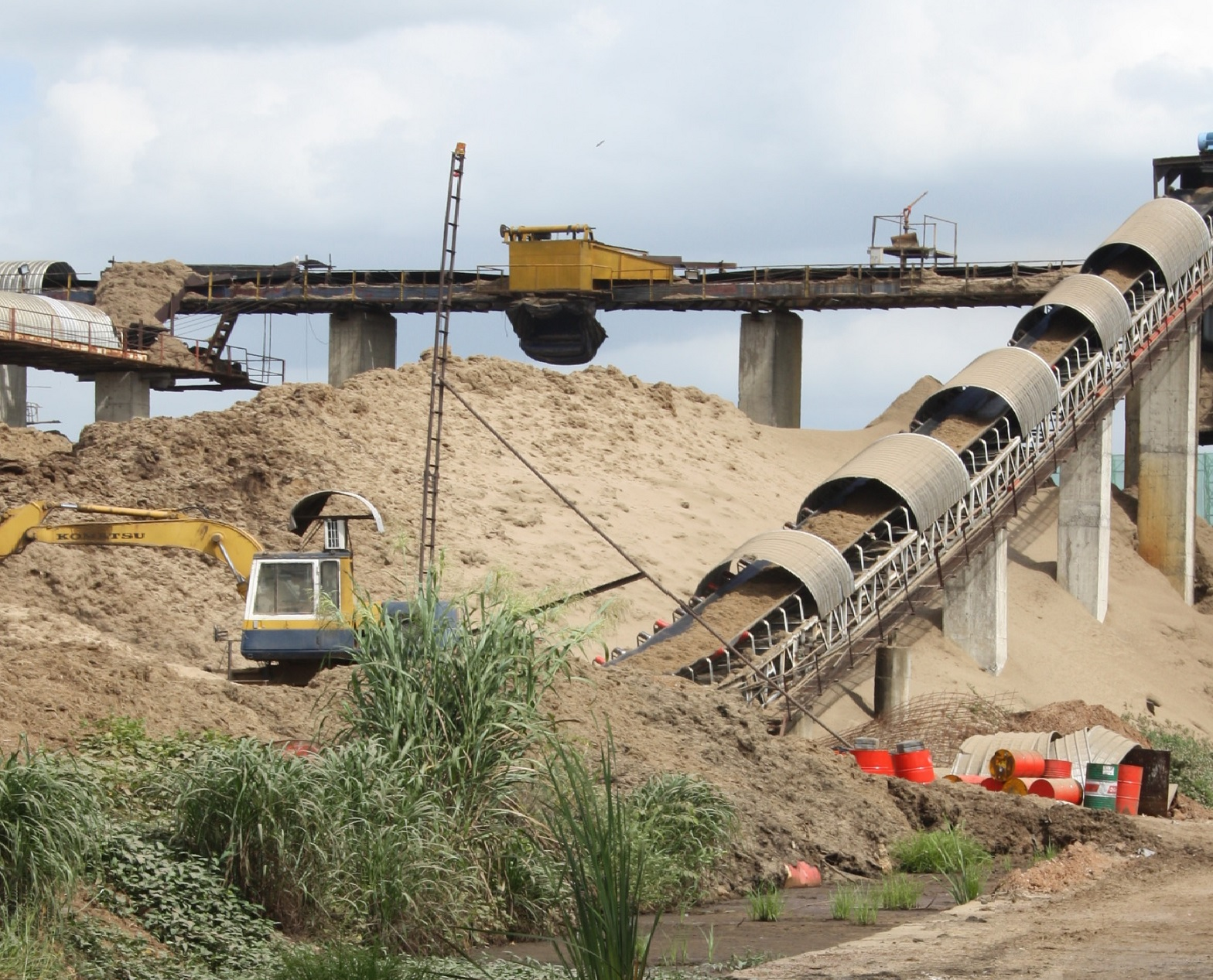 Bagasse stock of sugar factory in Si Thep, Phetchabun, Thailand